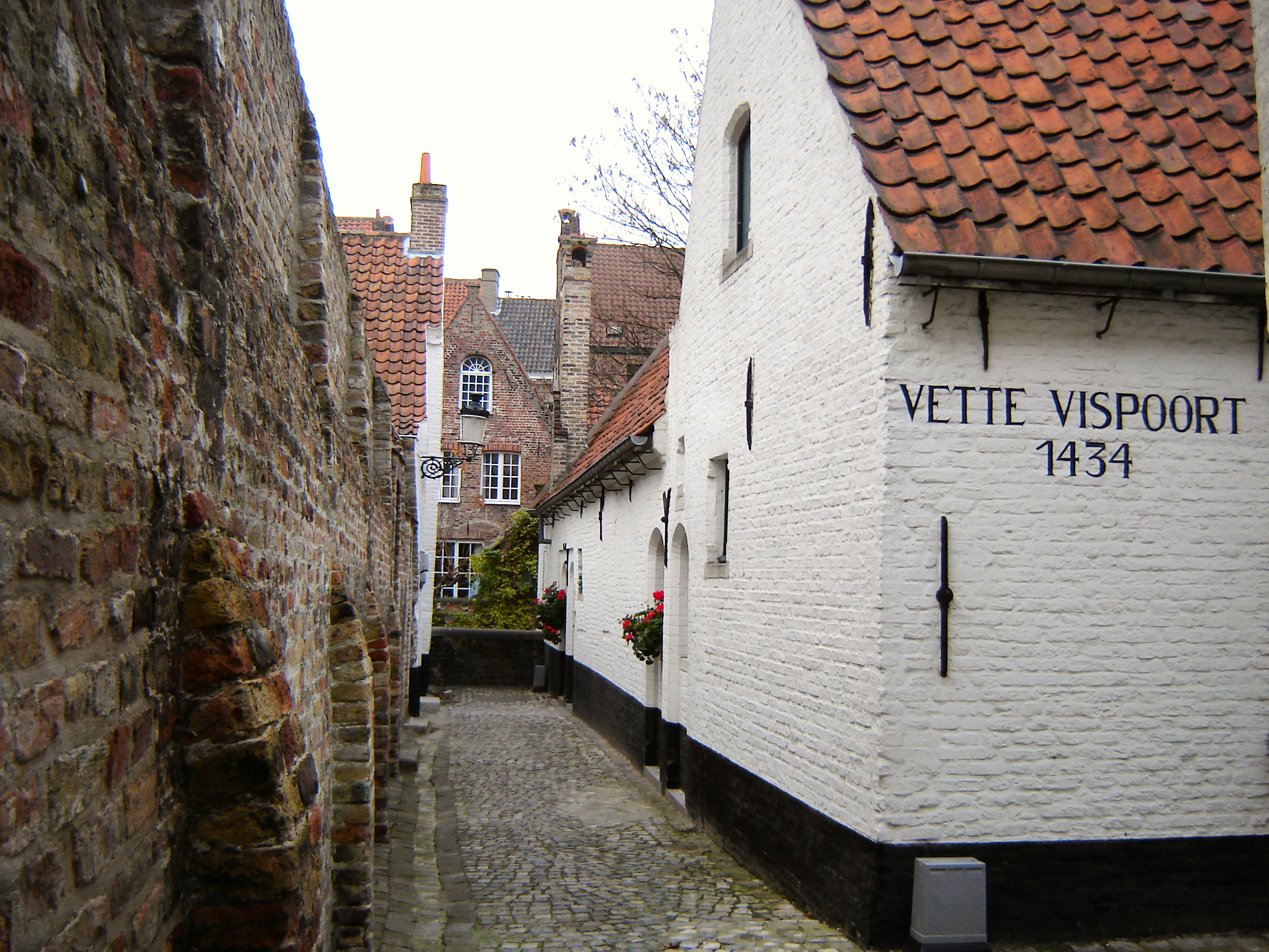 Former almshouse "Vette Vispoort", dating from 1434, in Brugge. Brugge, West Flanders, Belgium.